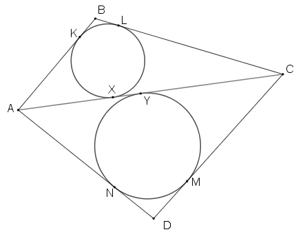 Incircles both sides of diagonals_ tangential